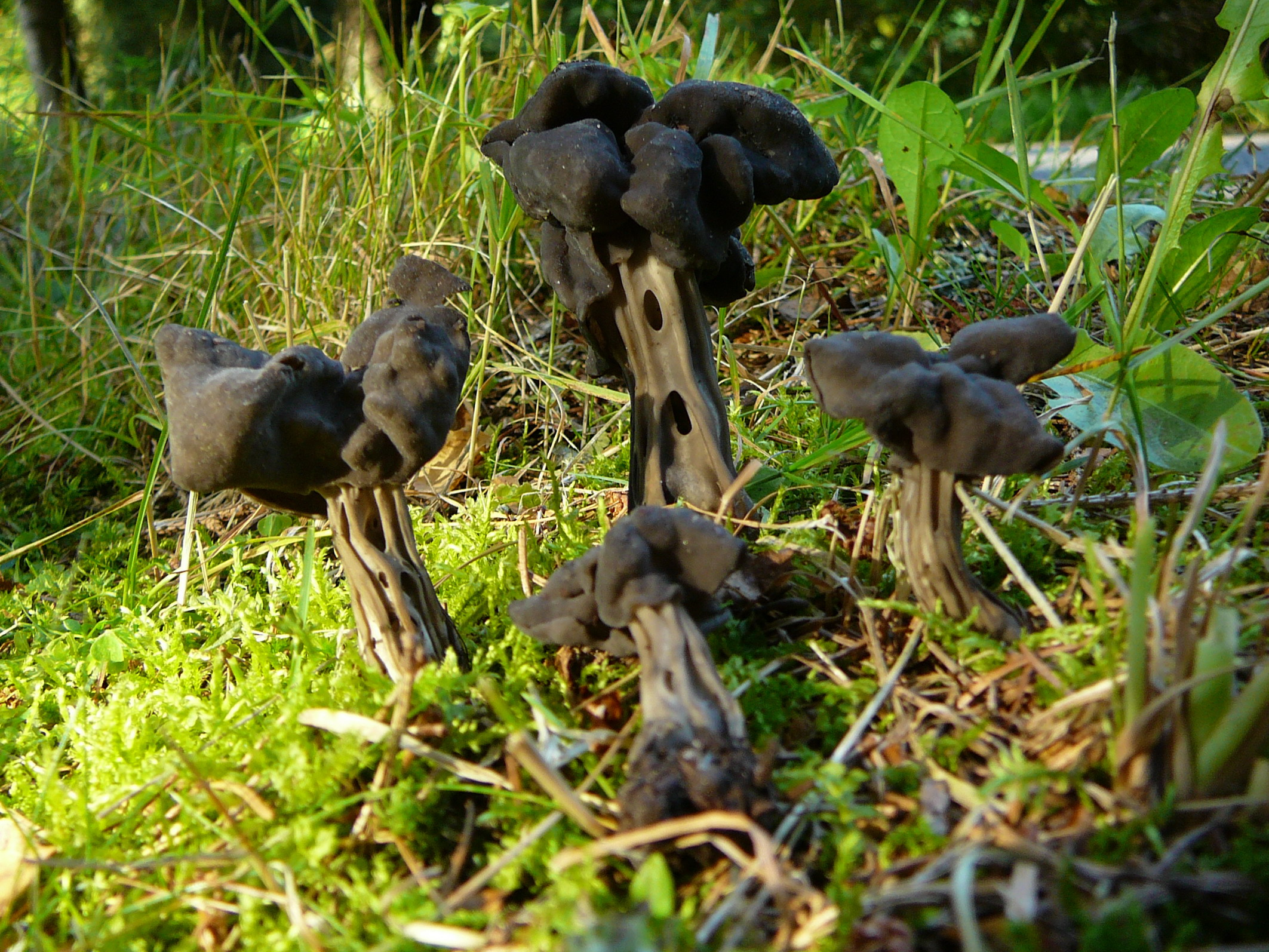 Helvella lacunosa (the slate grey saddle), an ascomycete fungus of the Helvellaceae family. Four mushrooms found in september 2011 near Wallern (Volary) in the Bohemina Forest in the Czech Republic.